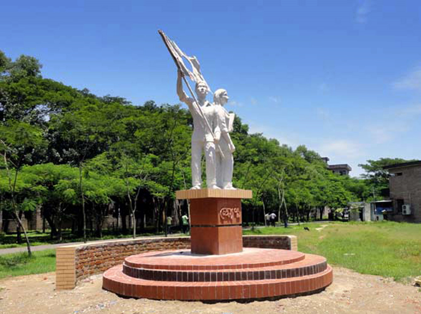 SUST campus Liberation war memorial, Chetona '71by Sculptor Nreepaul Khan